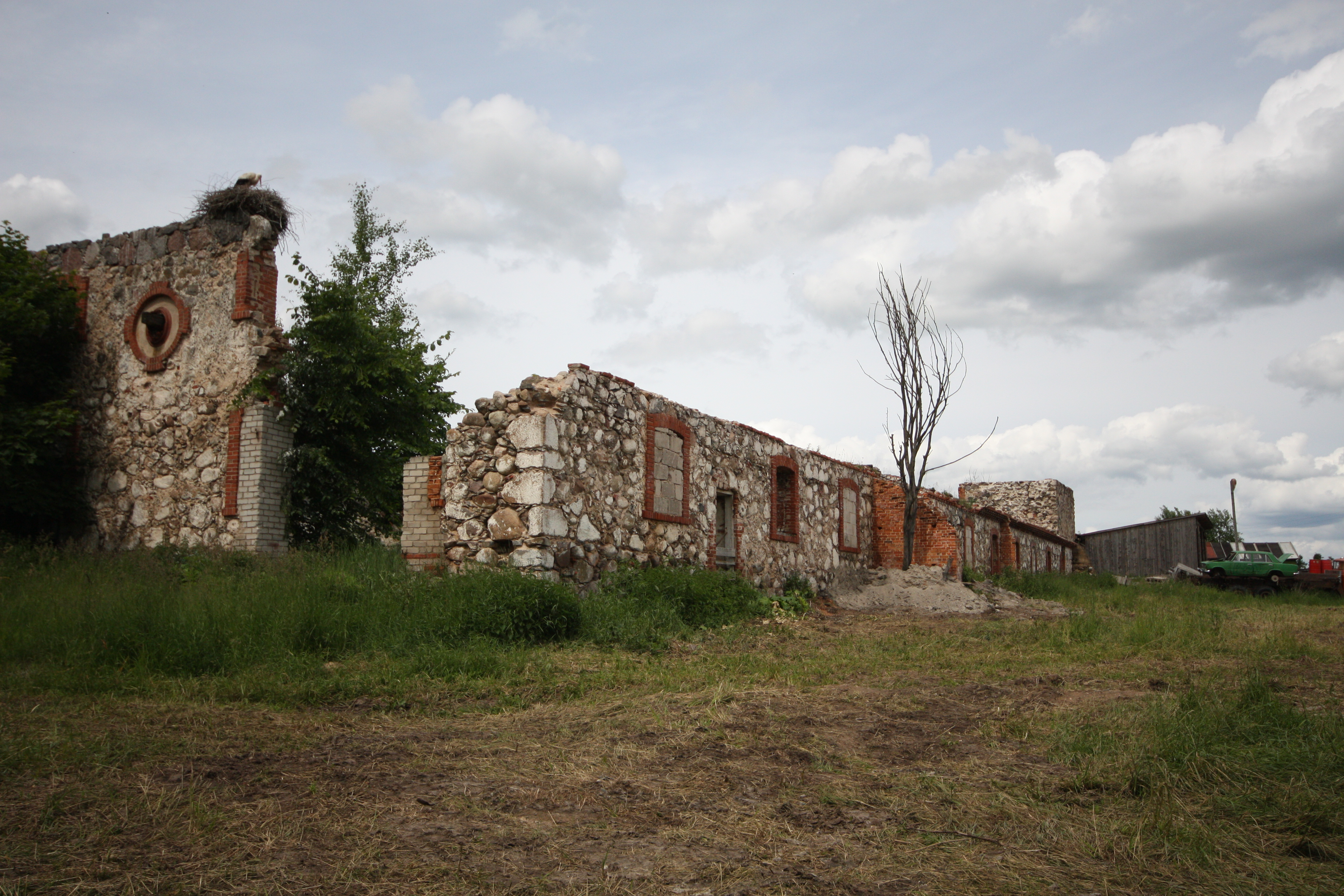 Smiltene manor — barn ruins